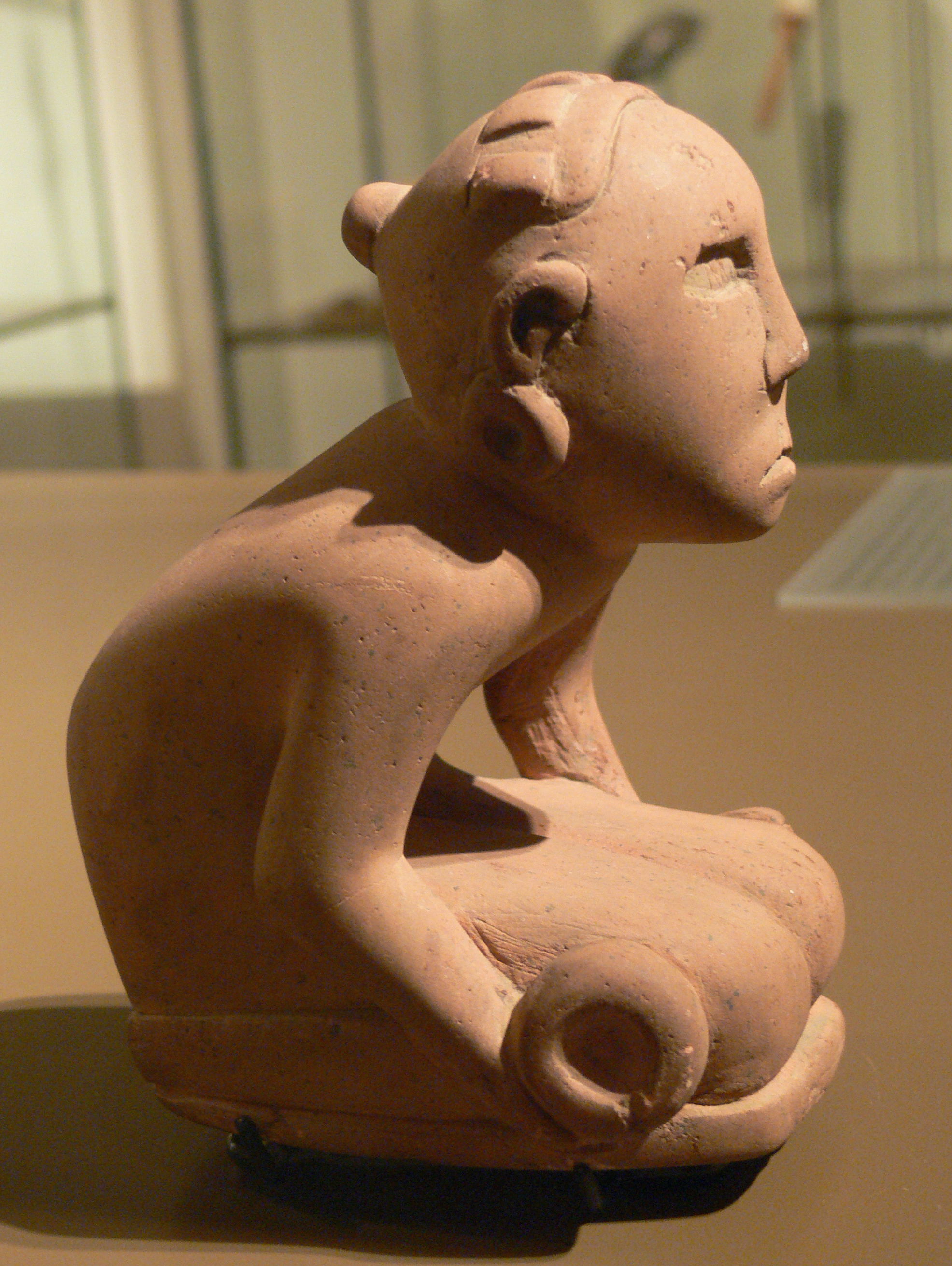 Pipe bowl in the form of a chunkey player. Mississipian culture, c. 1200-1400 AD. From a burial mound in Fulton County, Georgia. North America department, Ethnological Museum, Berlin, Germany (Stolper collection, 1970)